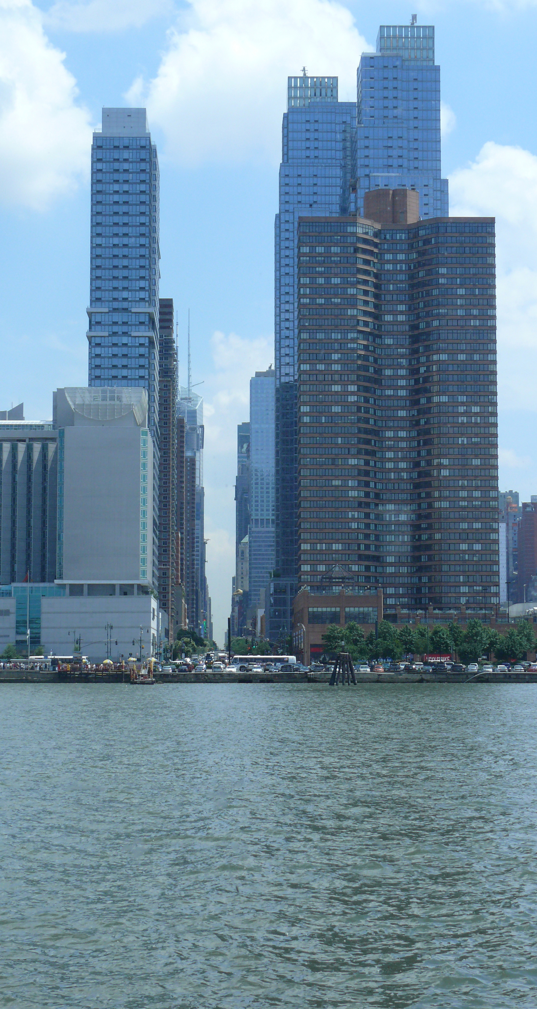 42nd street as seen from the Hudson River. The street lined with skyscrapers gives the impression of a canyon: the city canyon.